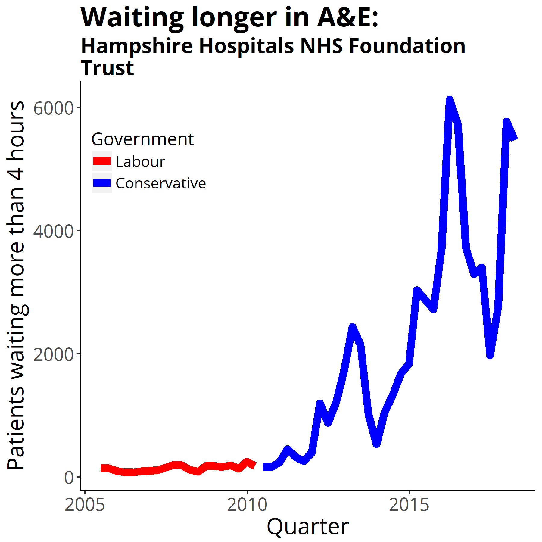 Four-hour target in the emergency department quarterly figures from NHS England Data from